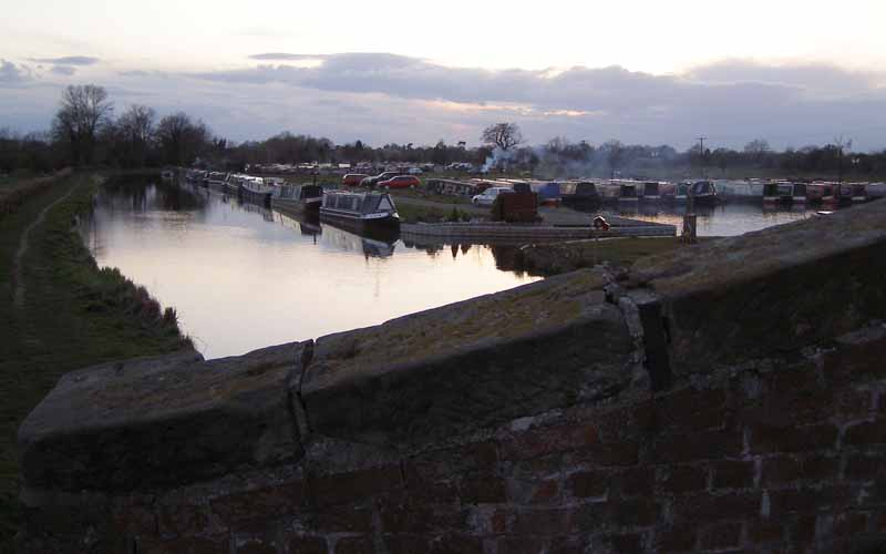 River from Shardlow to Sawley Marina in Derbyshire, England